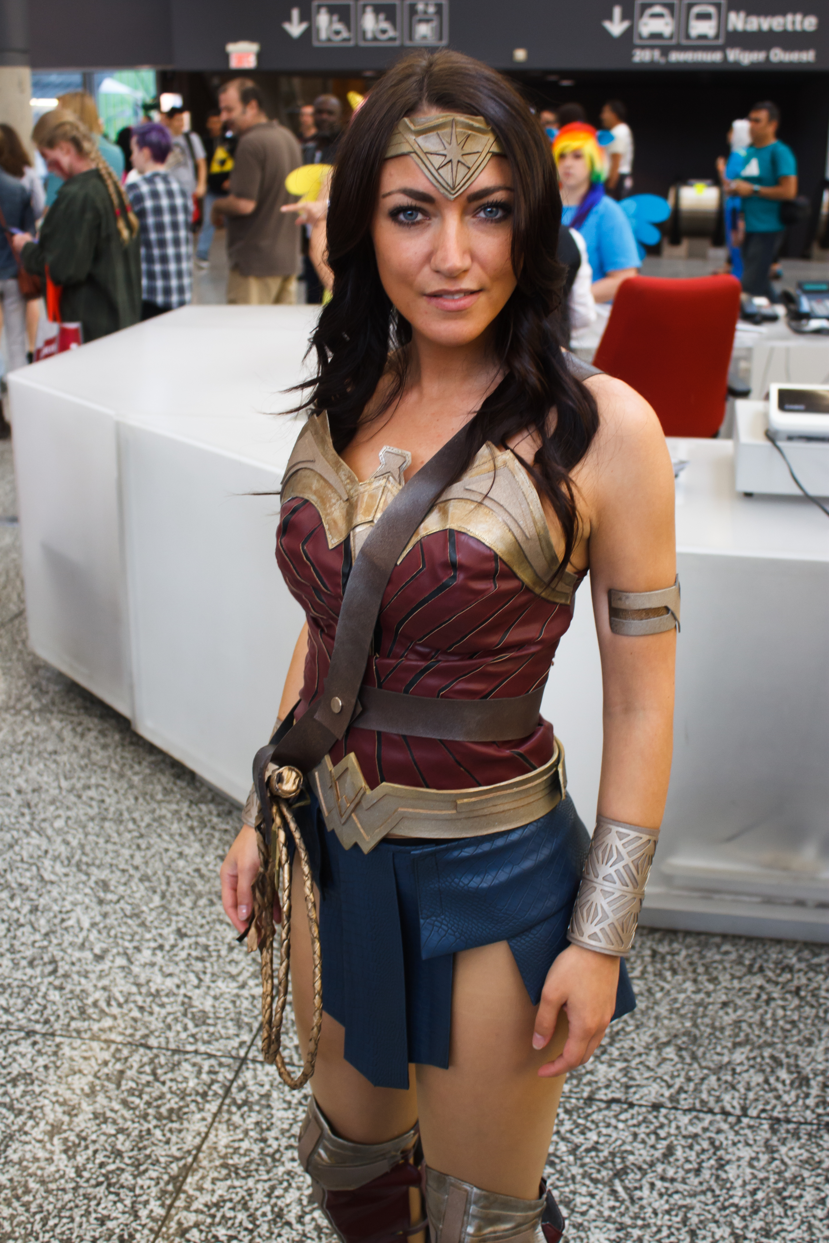 Cosplay on Sunday, day three, of the Montreal Comiccon 2016.